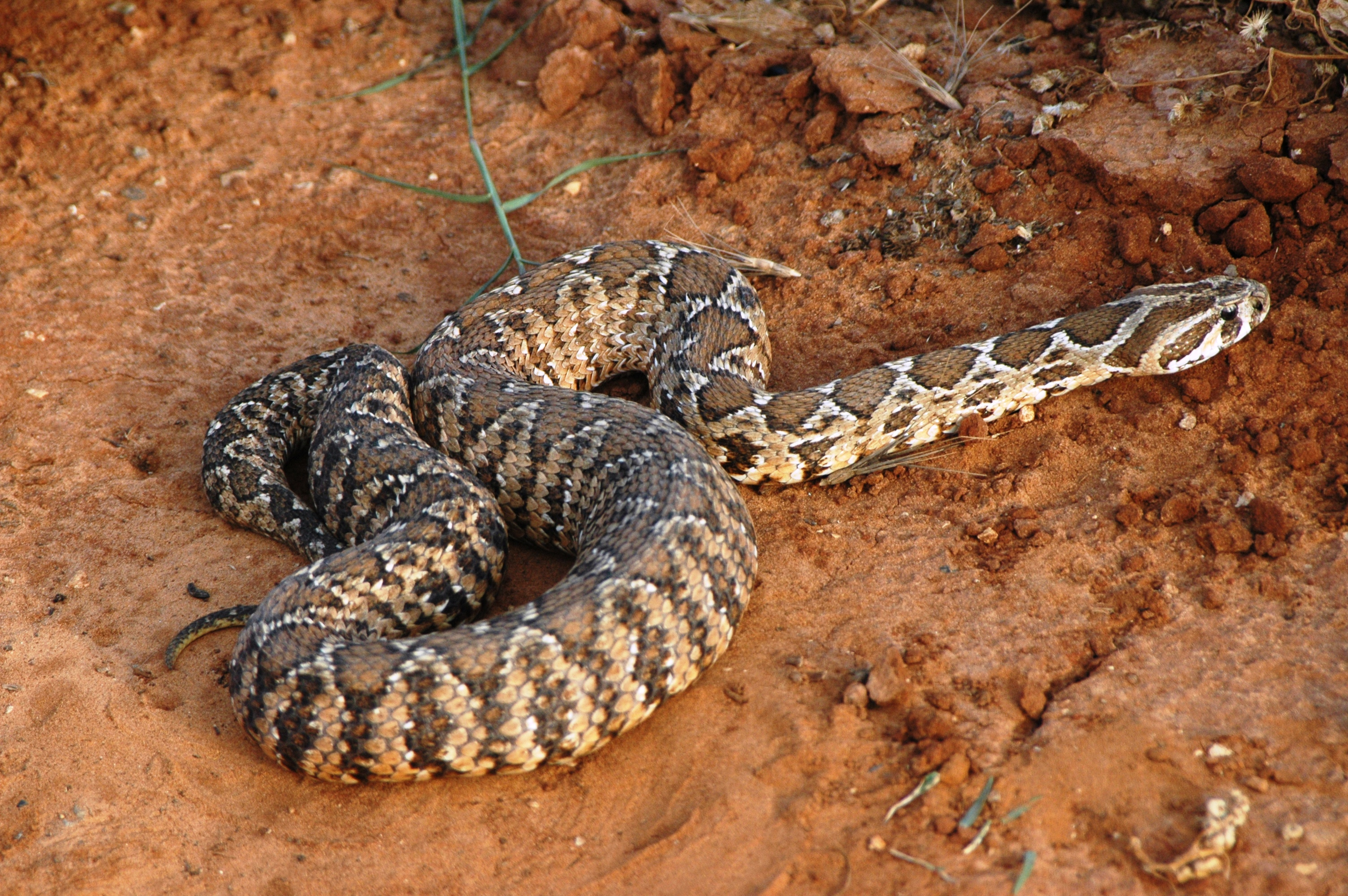 Vipera palaestinae, Israel